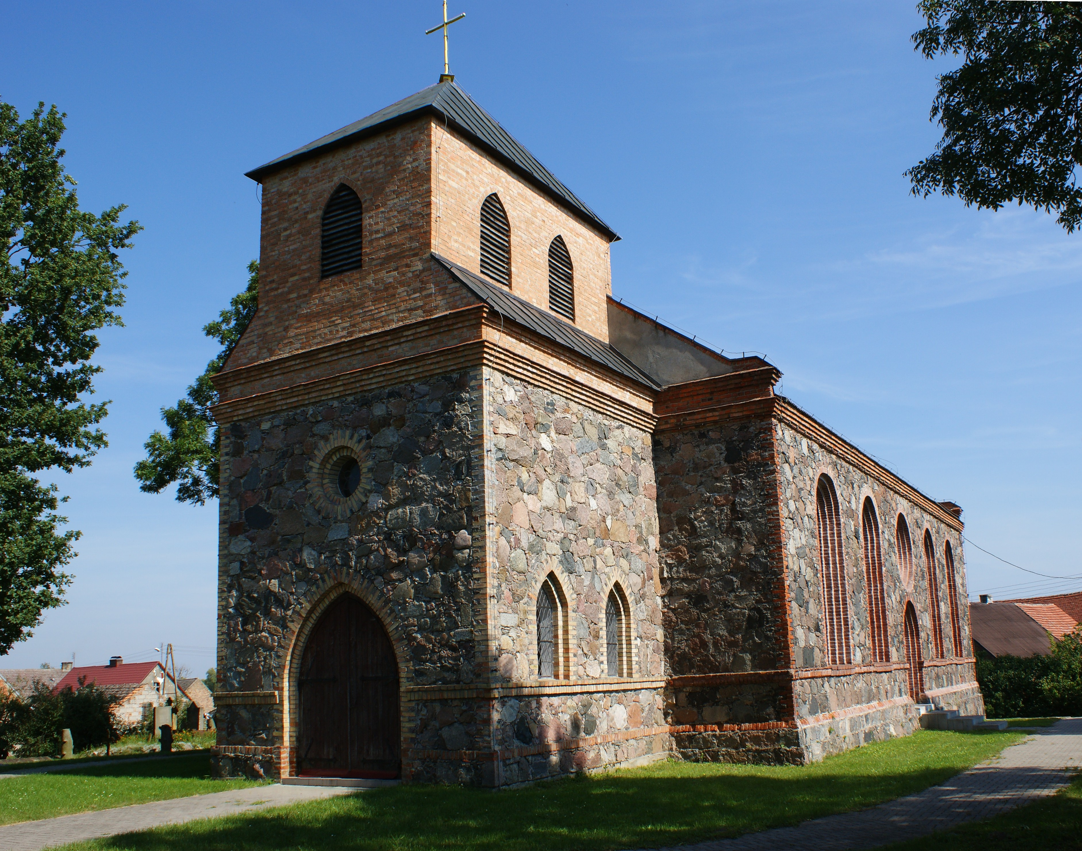 Church in Dalsze (Myślibórz commune, NW Poland). Rebuilded in years 1990-1993